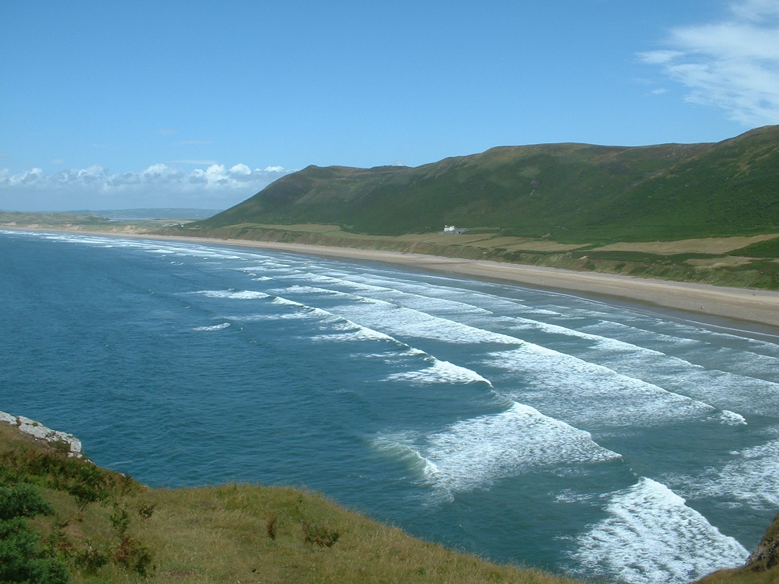 A view from the headland of Rhossili in June of 2004. Rhossilli is a small village and community on the southwestern tip of the Gower peninsula, near Swansea in Wales.